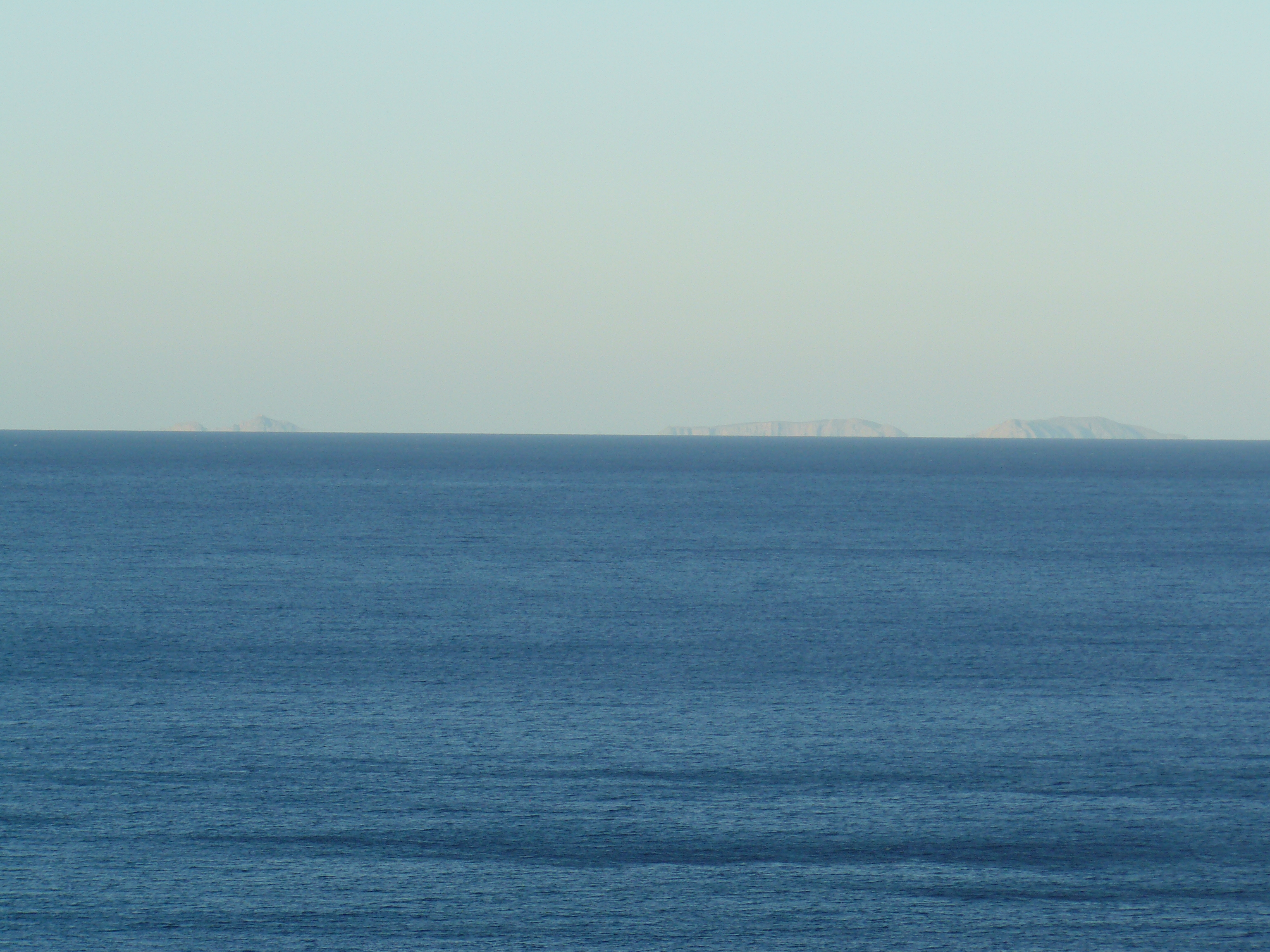 The Dionysades. Picture taken from Agios Nikolaos.